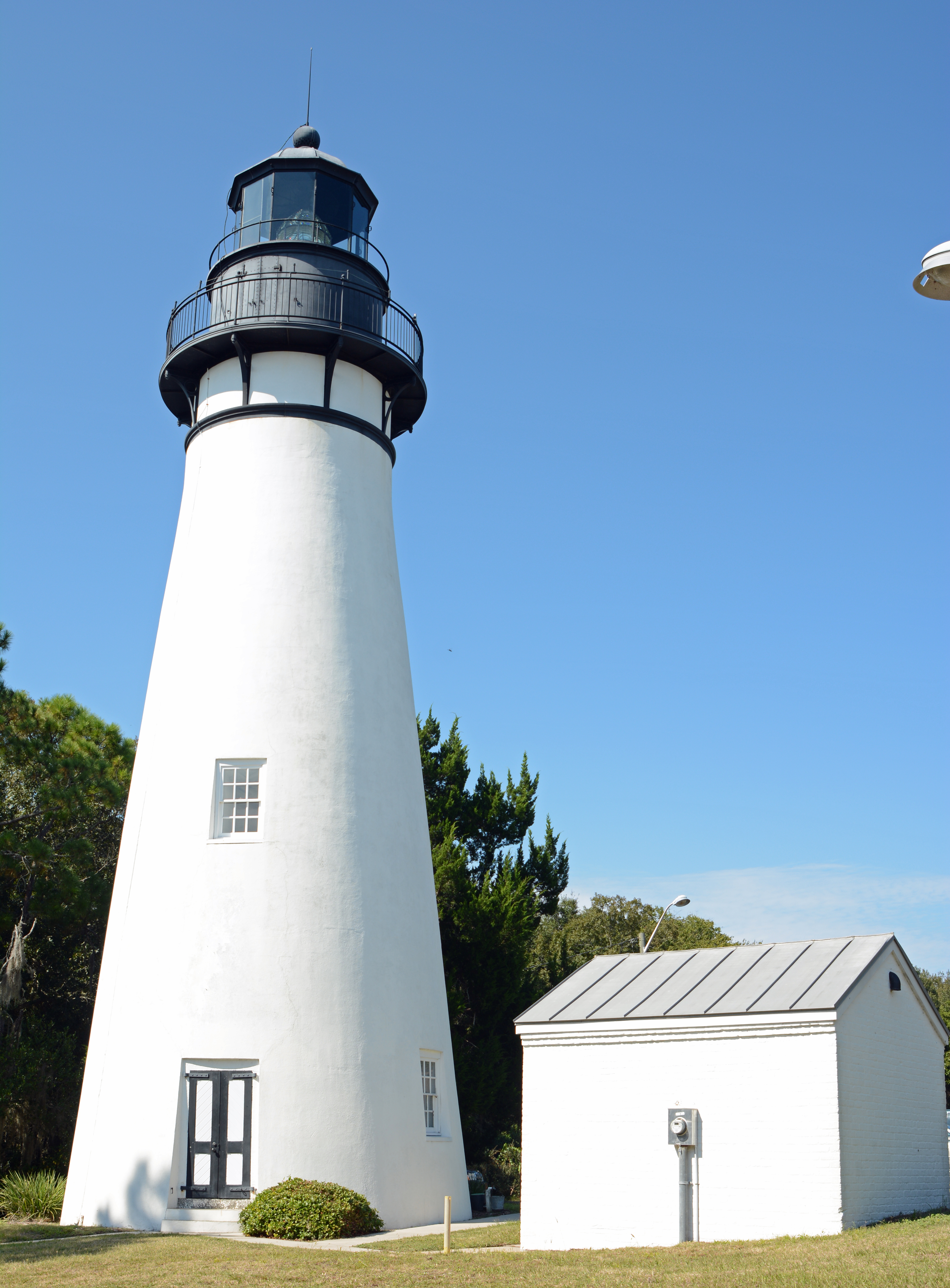 Amelia Island Lighthouse, Amelia Island, Florida, US